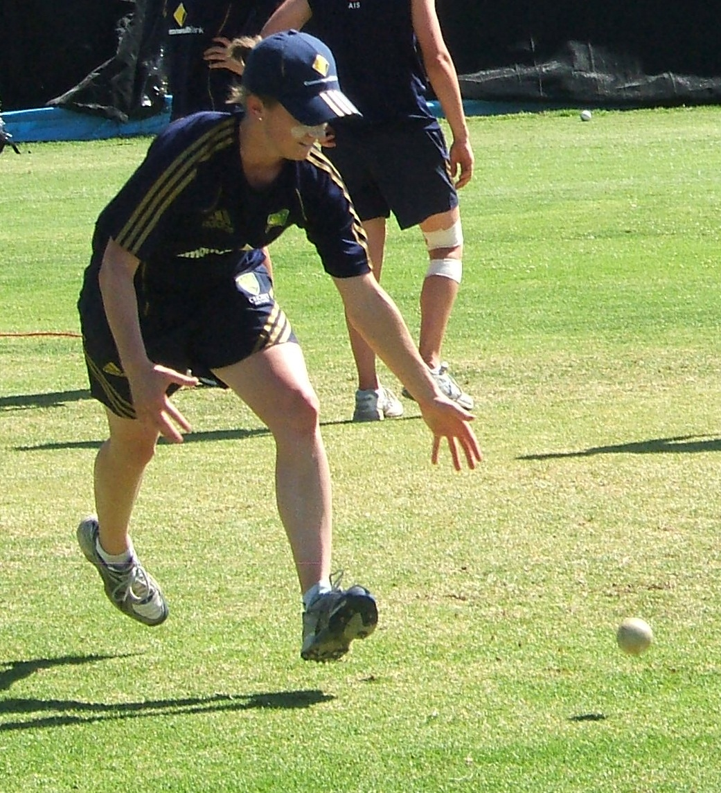 Named person engaging in named action at Adelaide Oval nets/training ground